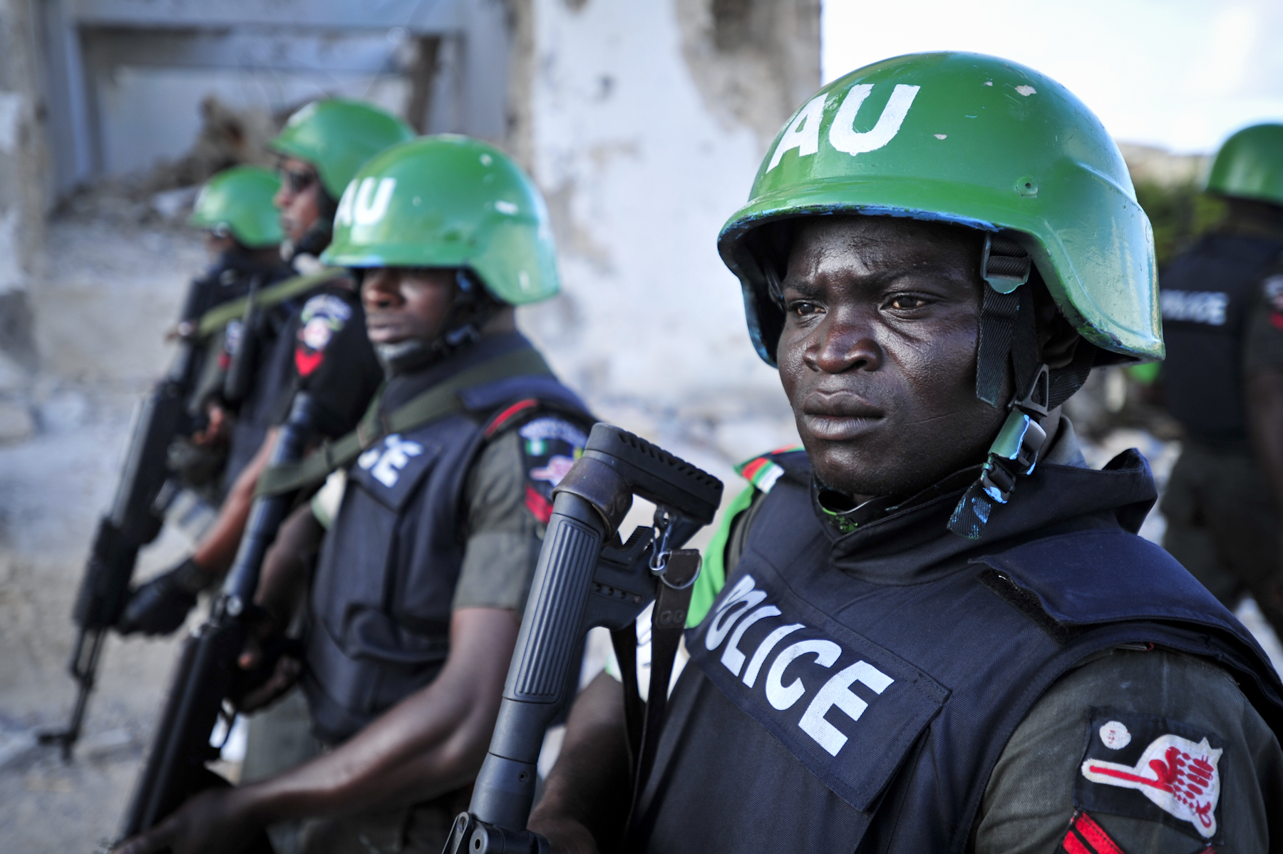 Nigerian police officers, part of AMISOM's Foreign Police Unit, conduct a foot patrol near Lido Beach. As part of AMISOM's efforts to make Mogadishu a safer place, regular foot patrols are now conducted throughout the city by the mission's Formed Police Units (FPUs). AU-UN IST PHOTO / TOBIN JONES.